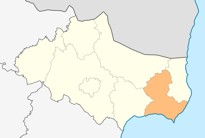 Map of Kavarna municipality, Dobrich Province